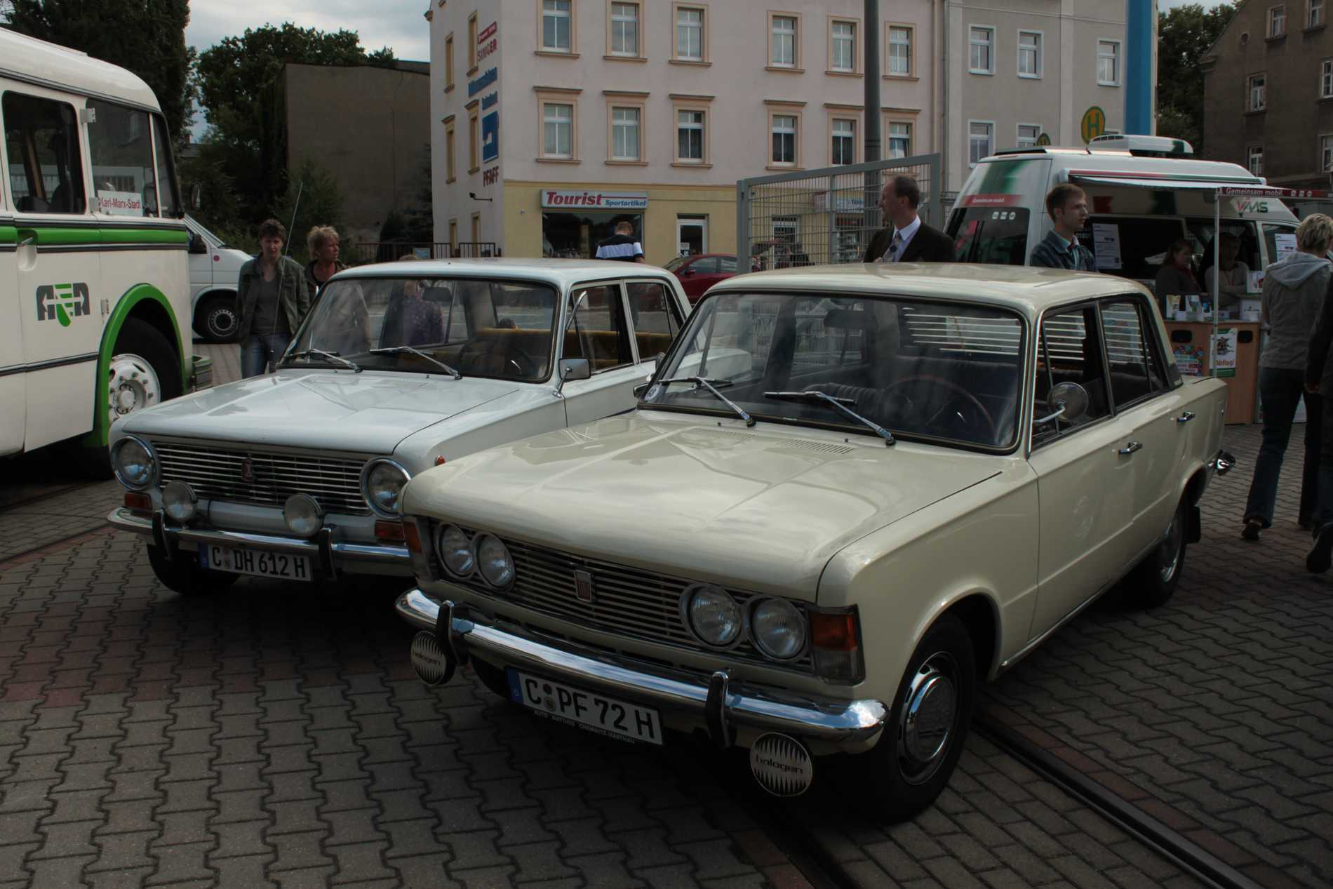 Lada 2101 and Polski Fiat 125p.